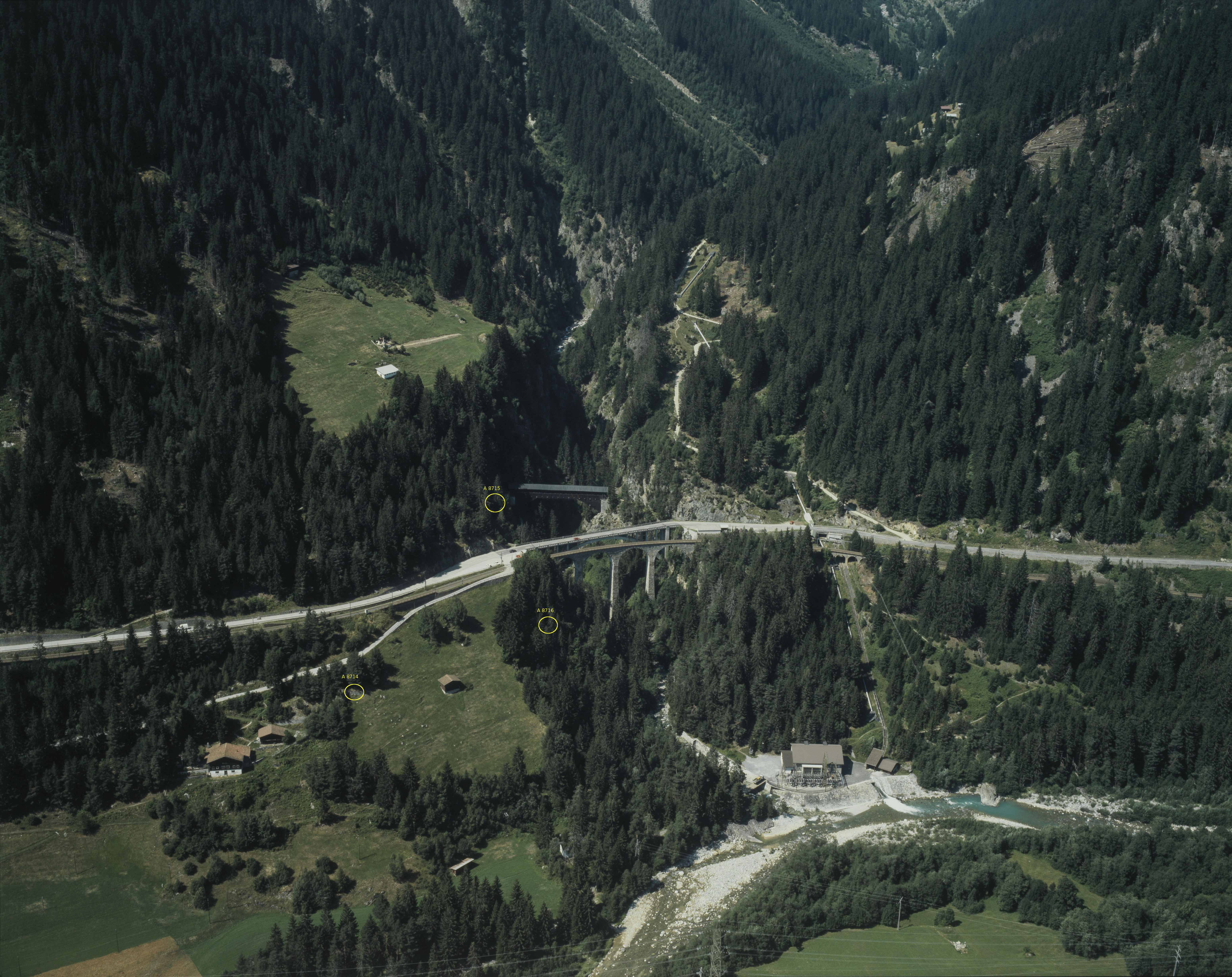 Sperrstelle Russein, Disentis GR, Schweiz